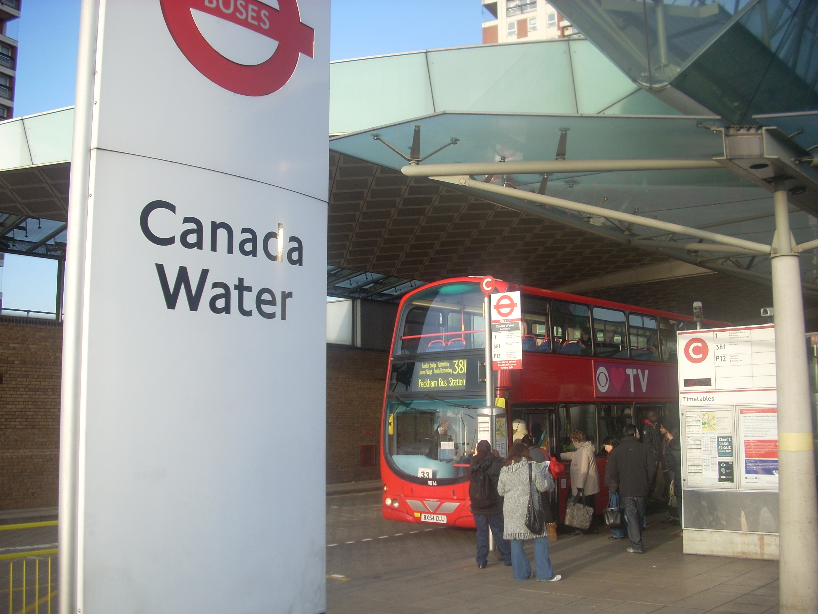 Canada Water's bus station one December morning